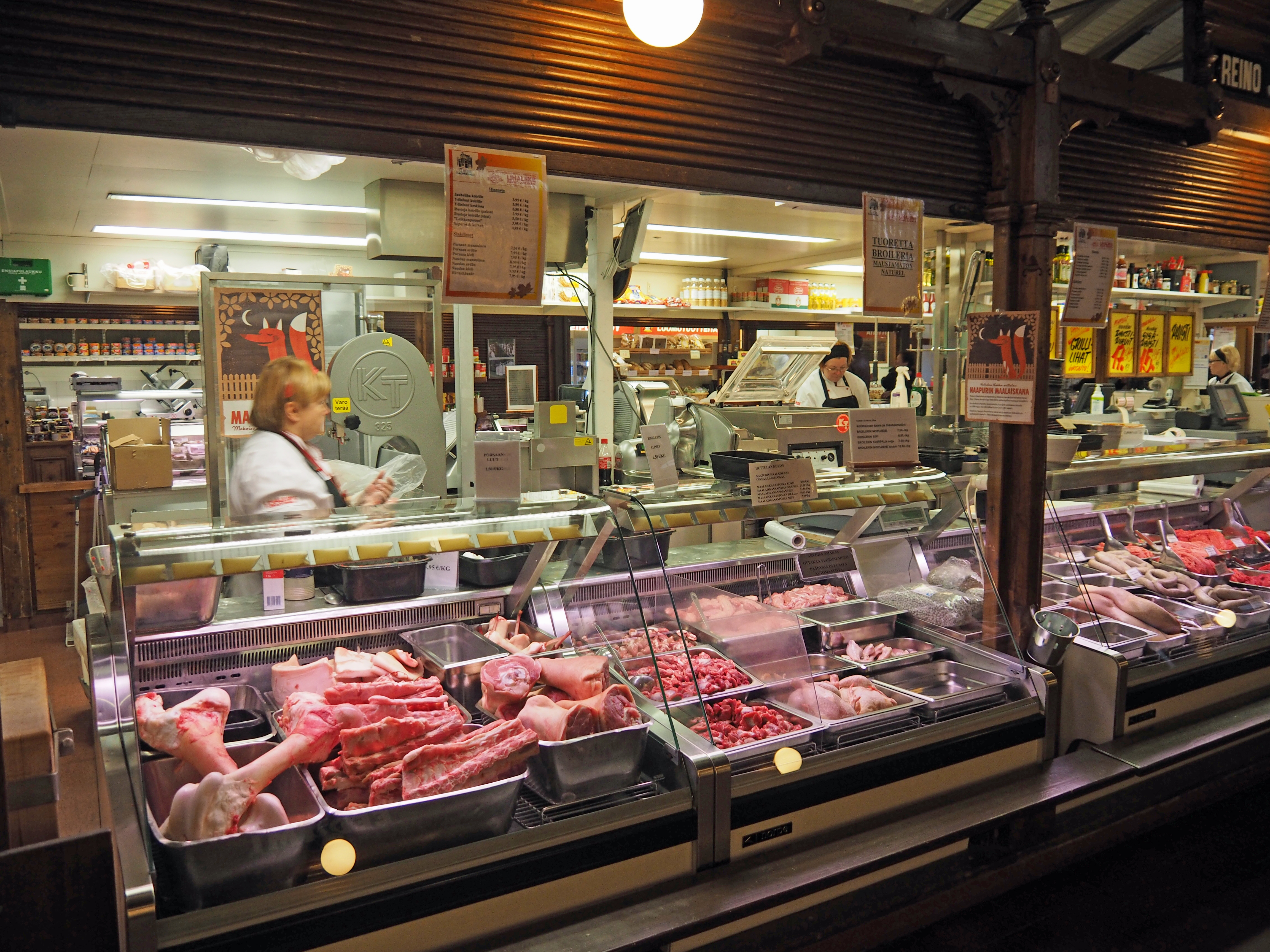 Turku Market Hall Interieur